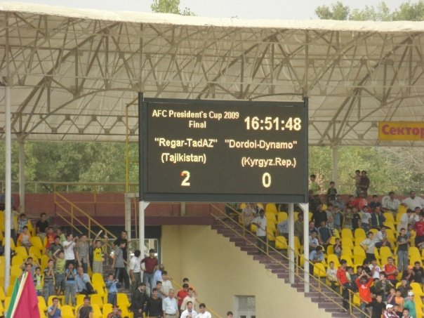 The final score of the 2009 AFC President's Cup final in Tursunzoda, Tajikistan between Regar TadAZ F.C. and Dordoi Dinamo F.C.